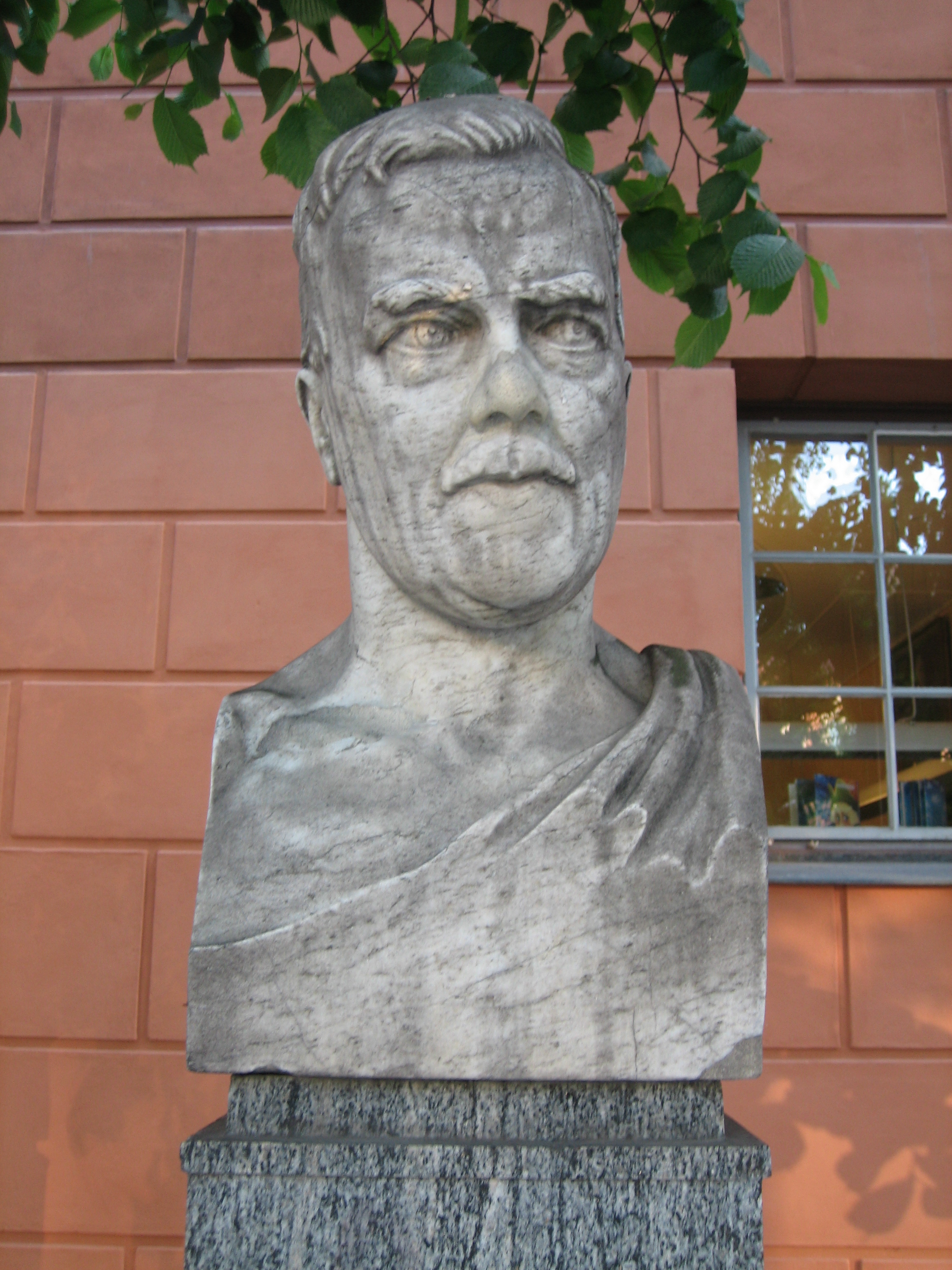 Bust of Erik Hedén (1875-1925), swedish author, social democrat and critic, placed in front of Stockholm public library. Bust made by Carl Eldh 1931.